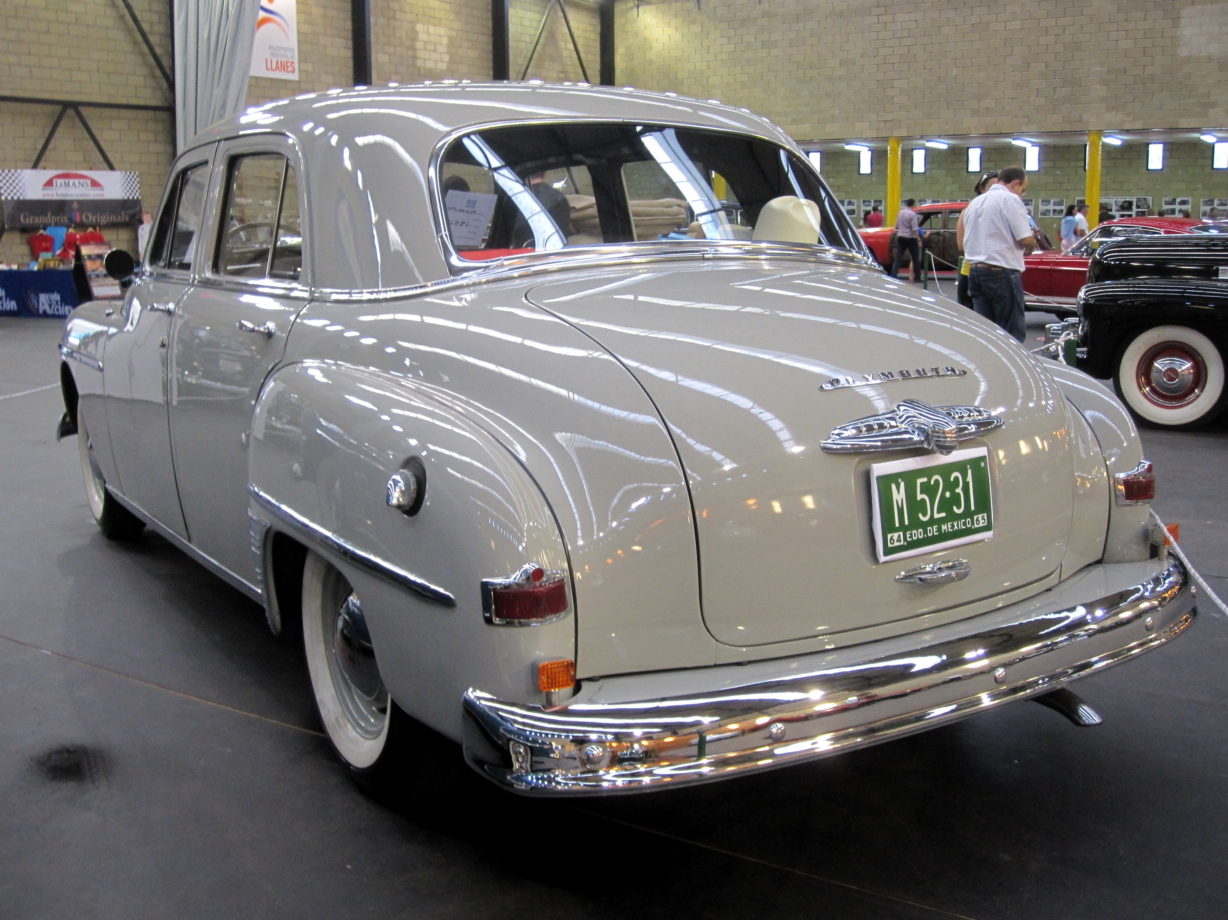 With plates from México.